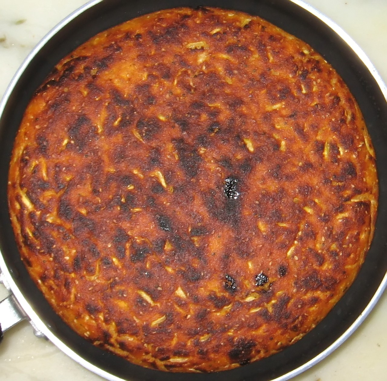 'Handwo' is a sour cake concocted from a mixture of rice and gram flour, curd, fine potato chips, fried onion pieces and all spices of the East.